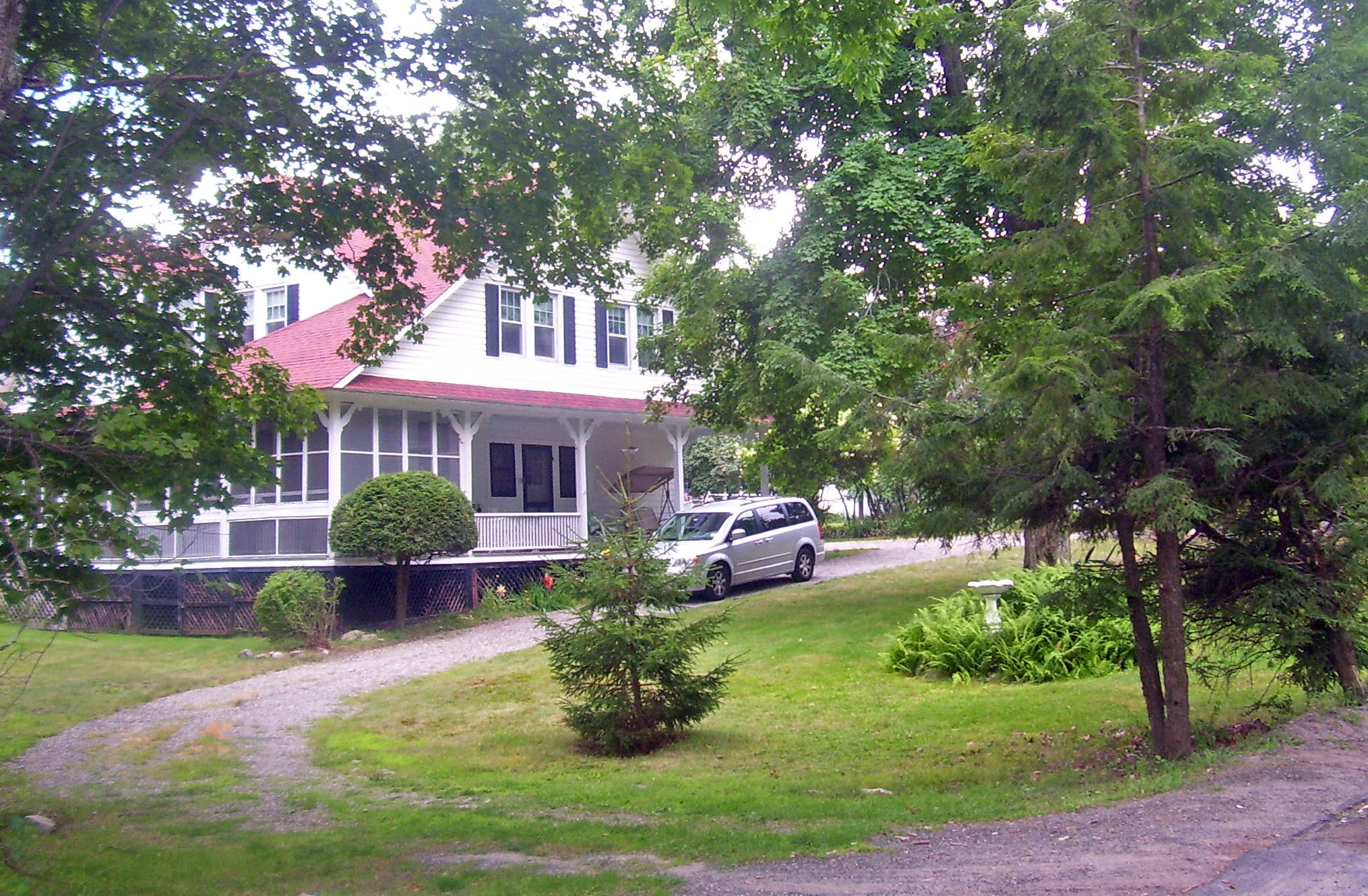 House in Mamakating Park Historic District, a late 19th-century Catskill resort community, Mamakating, NY, USA